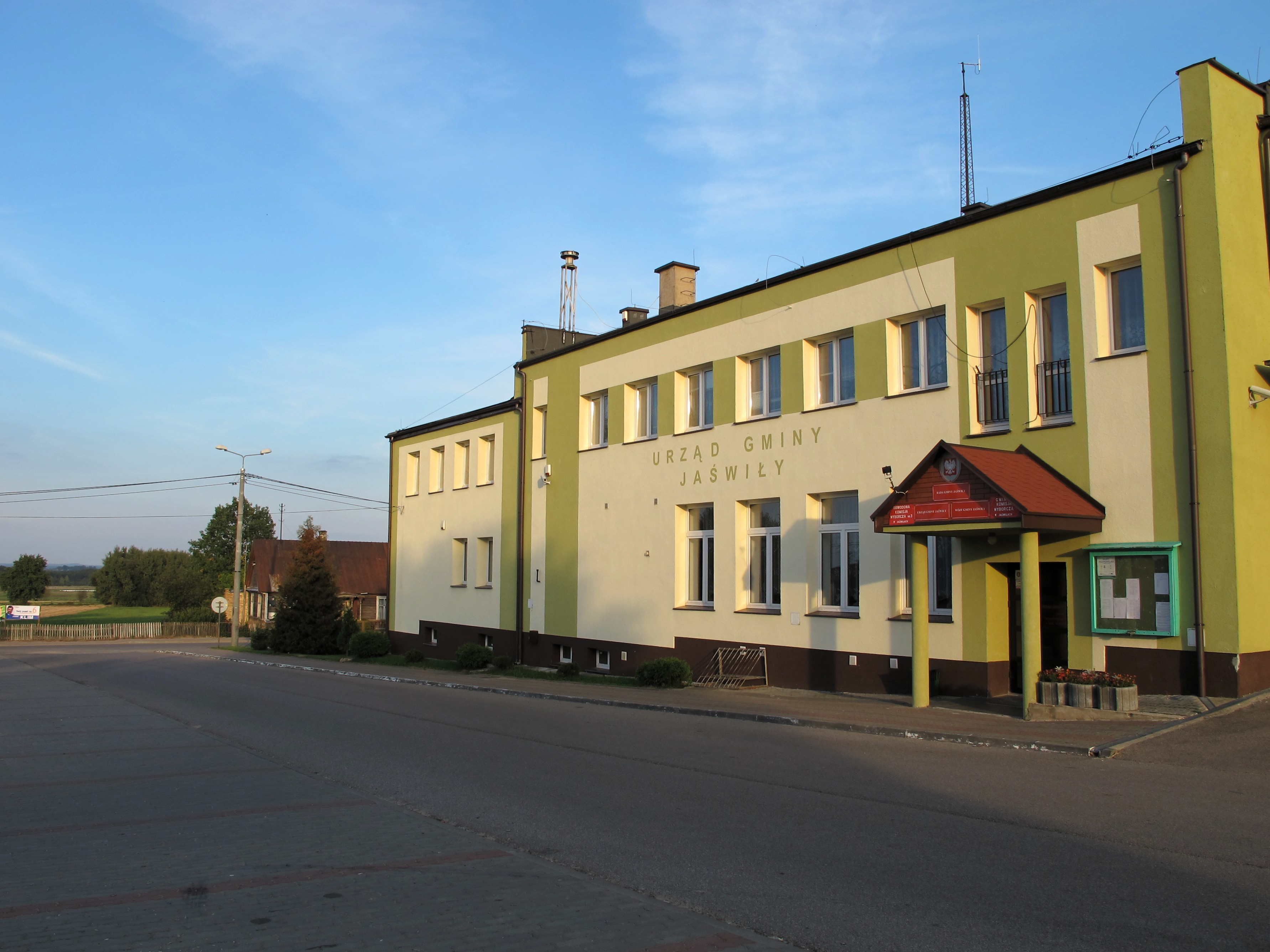 Jaświły gmina office in Jaświły, gmina Jaświły, podlaskie, Poland